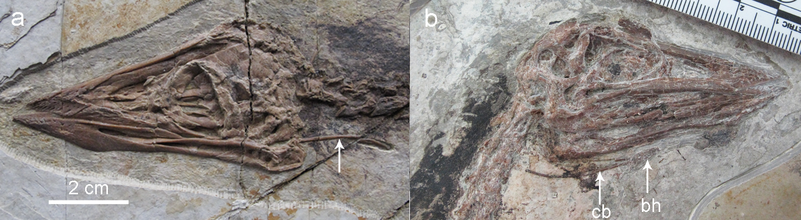 Avialan skulls with associated hyoid elements preserved. The hyoid elements are indicated by arrows. Abbreviation: bh, basihyal; cb, ceratobranchial; ep, epibranchial. a, Confuciusornis sanctus (IVPP 13175); b, Confuciusornis sp. (STM 13–6)